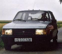 Talbot Samba Sympa, build 10/1983